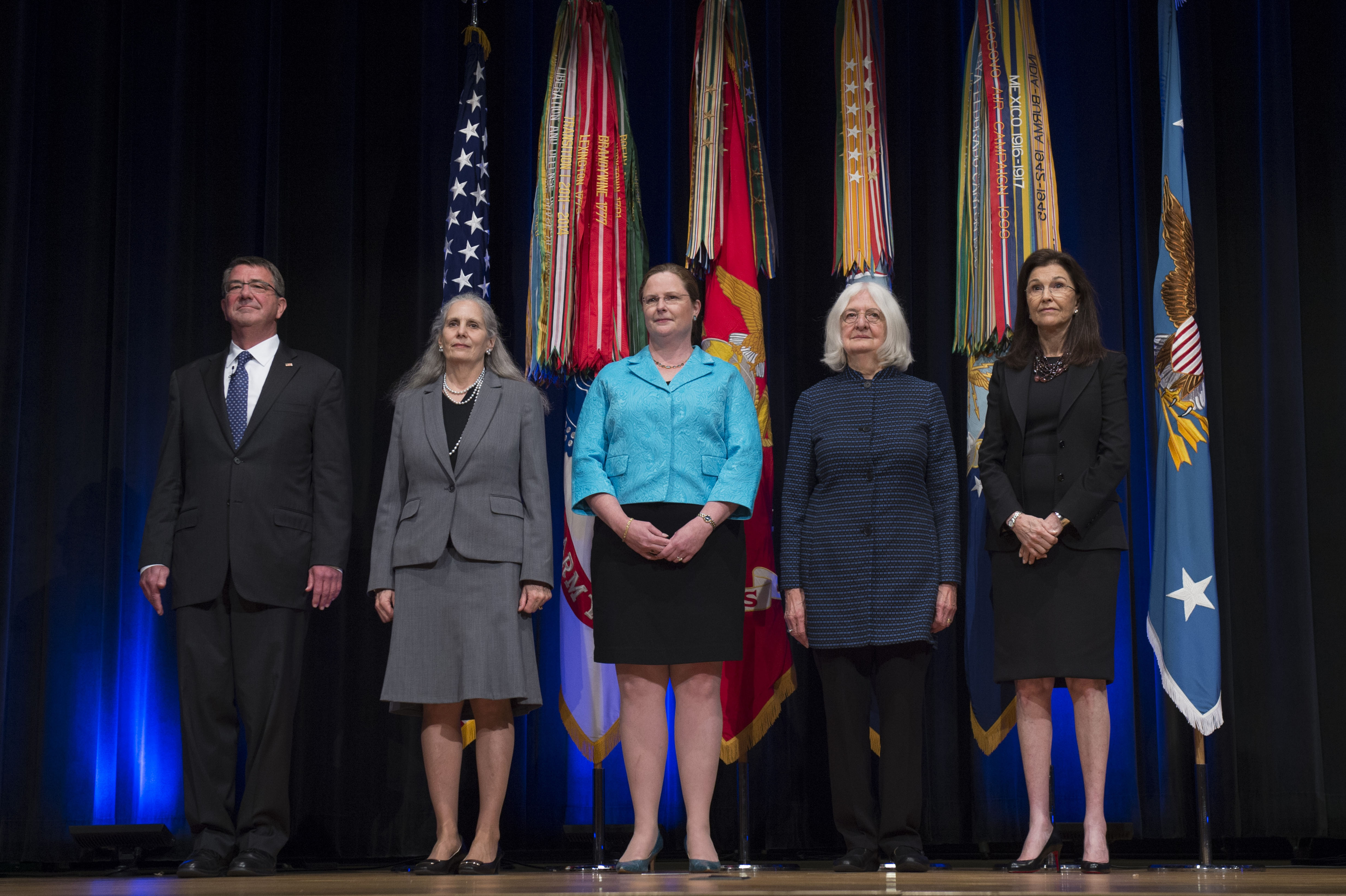 Secretary of Defense Ash Carter stands with Nunn-Lugar Trailblazer Award recipients Dr. Gloria Duffy, Ms. Laura Holgate, Dr. Susan Koch, and Ms. Jane Wales after providing remarks at a ceremony commemorating the 25th Anniversary of the Nunn-Lugar Cooperative Threat Reduction Program at the Pentagon May 9, 2016.(DoD photo by Senior Master Sgt. Adrian Cadiz)(Released)